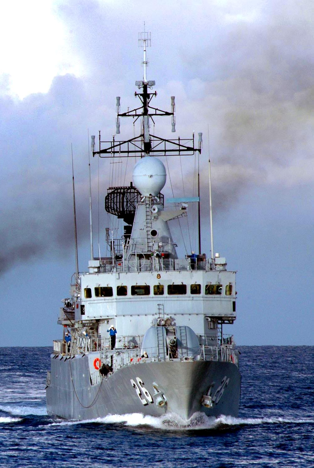 The Royal Malaysian Navy vessels KD Lekir during exercise CARAT in 2008.